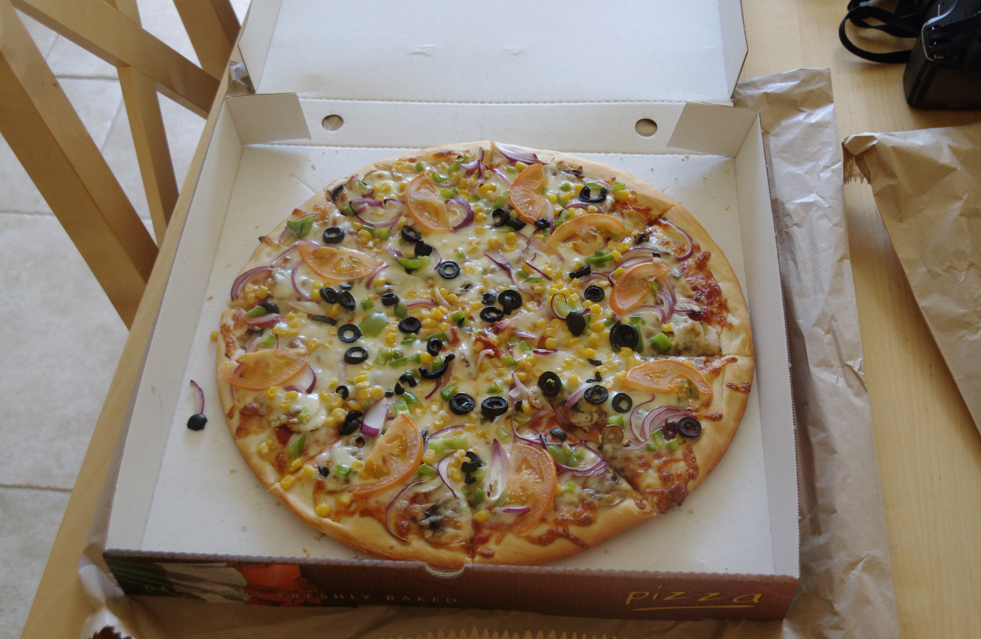 A pizza on the dining table of the cottage "Sleepy Hollow" in Husthwaite, Yorkshire. The pizza was bought from Barbe-q in Easingwold.